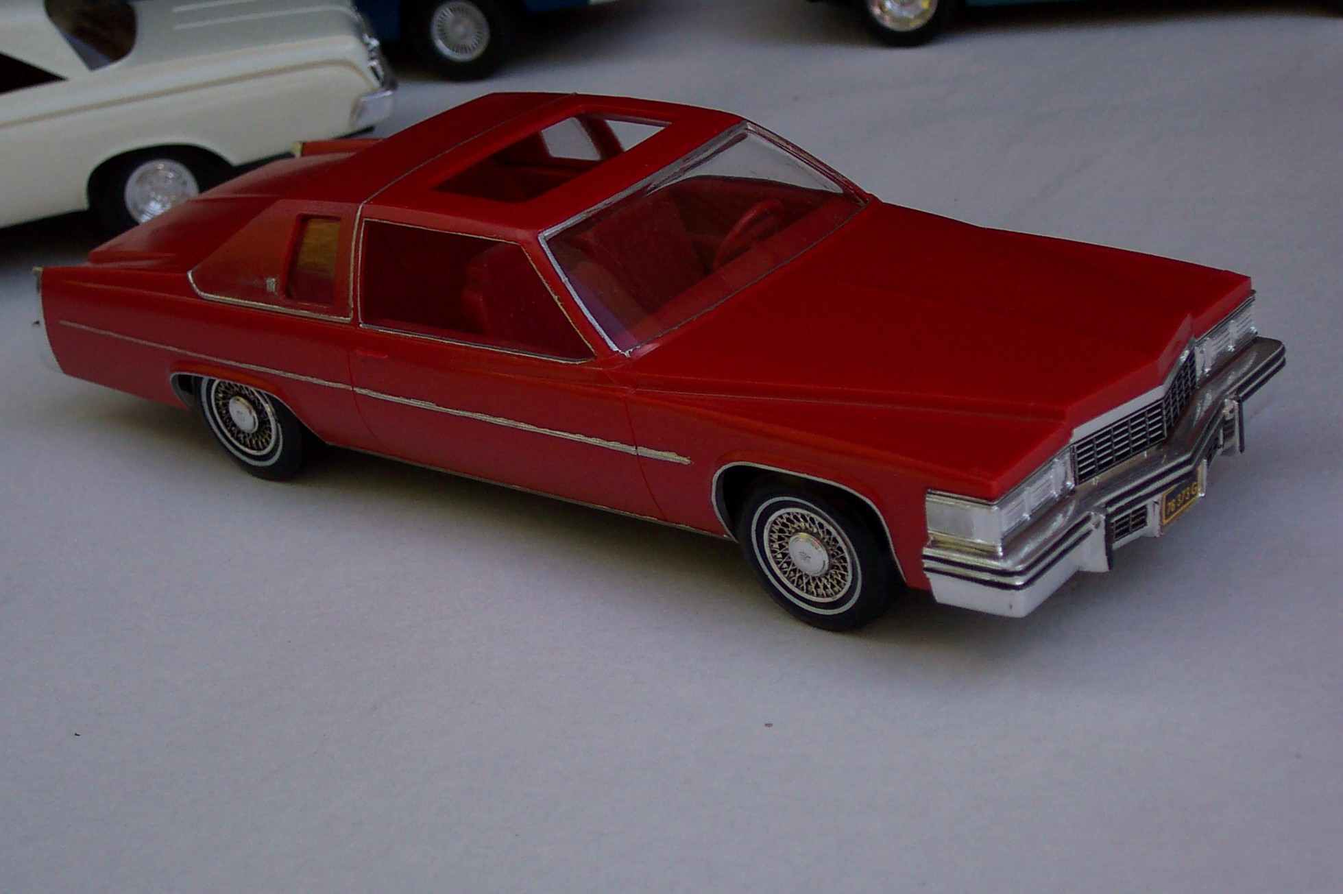 Took these photos to sell these on eBay in 2004, so I don't have any of them now, 2008. Many were built by me years ago and others partly built, some unbuilt.